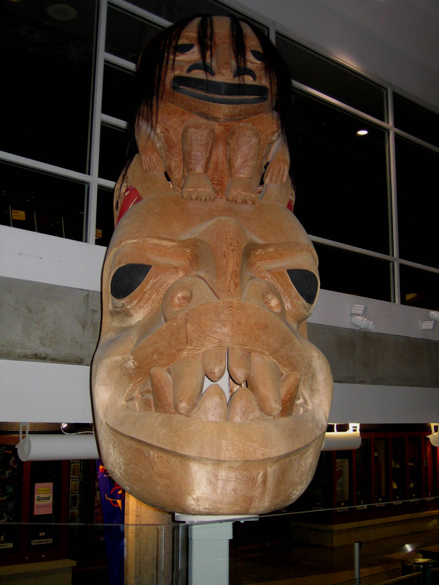 A mask carving by Dempsey Bob (title: Bear and Human Mark) at the Vancouver International airport, Canada.